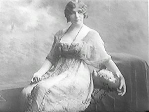 Lois Weber in Hypocrites (1914)